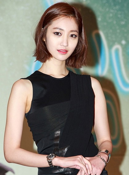 Ko Joon-hee at the press conference of Twelve Men in a Year (tvN / 2012)